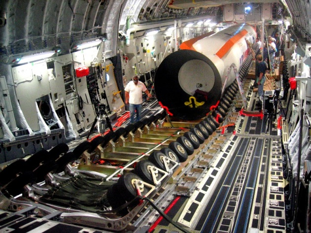 Falcon Drop Test from a C-17 aircraft out of Edwards AFB. CA, USA.